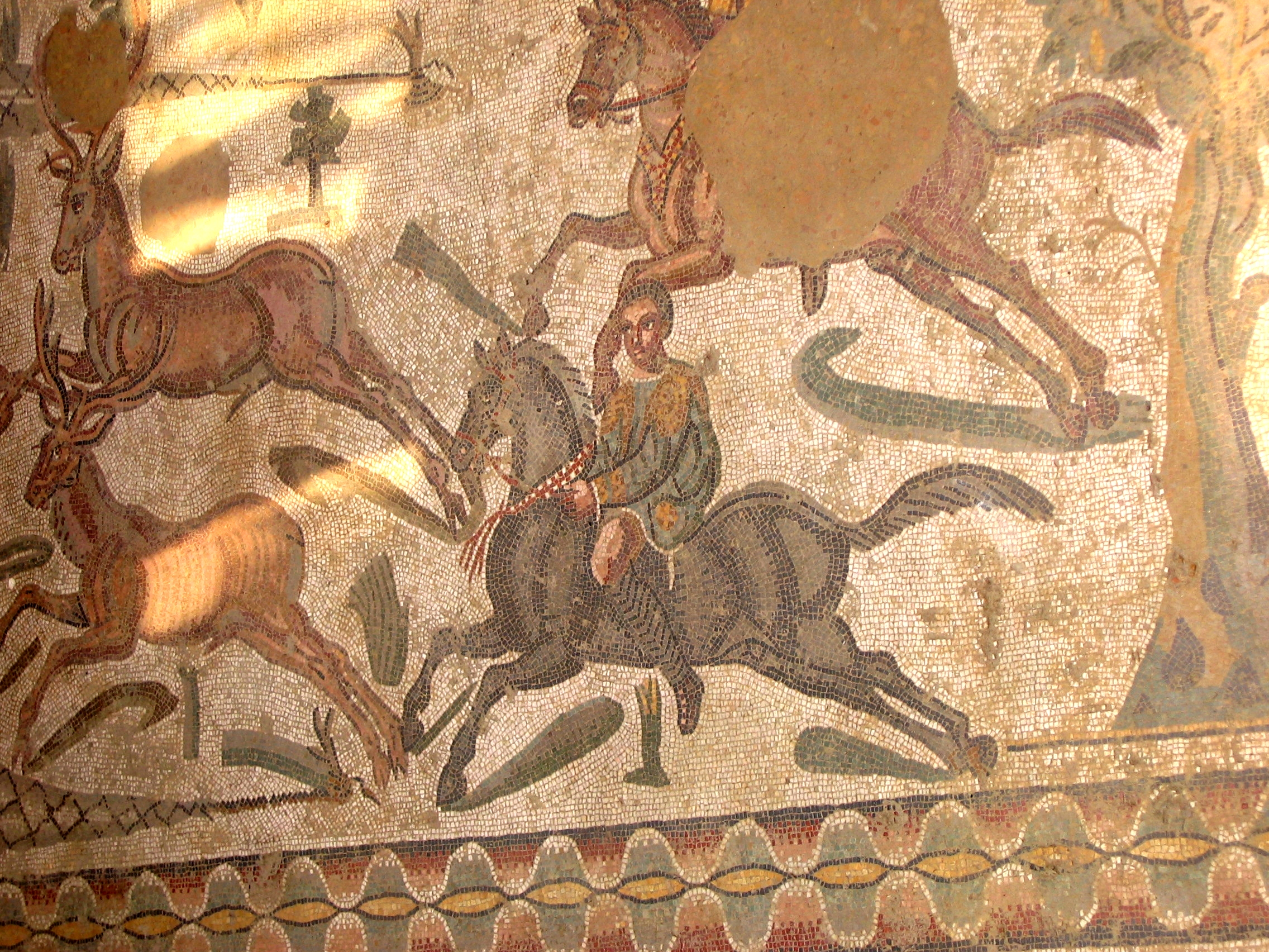 This is a modified version of the following picture (enhanced contrast): Image:Villa Del Casale Chasse.jpg, uploaded by Urban on 15:43, 27 August 2005